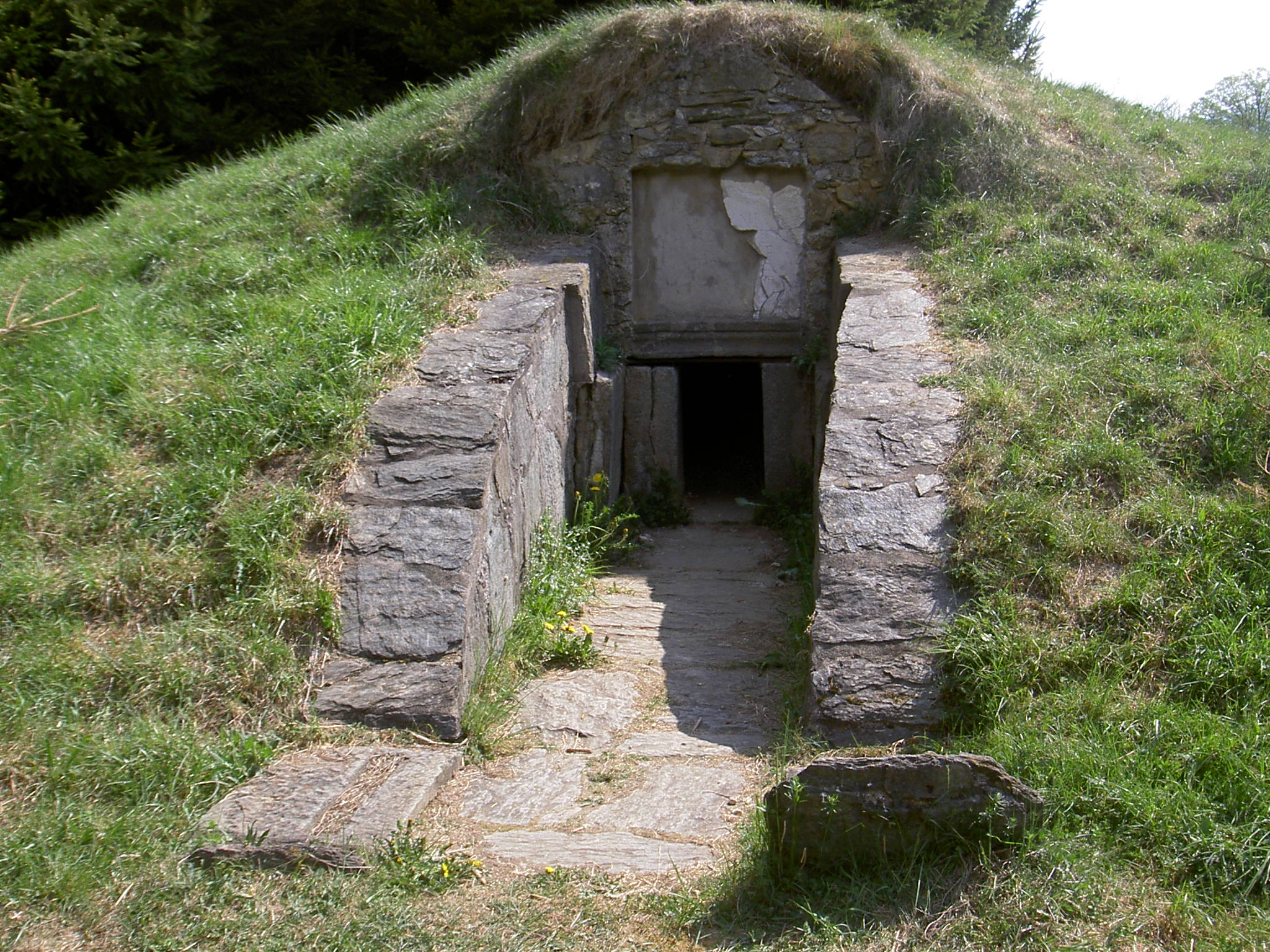 Roman grave in Semriach, Styria